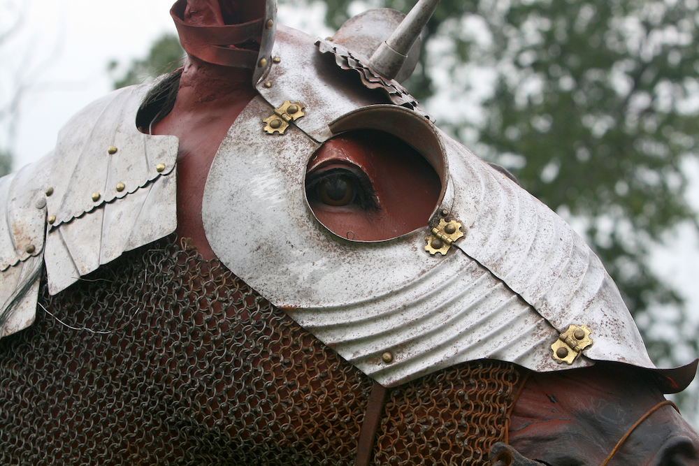 15th Century Replica Horse Armor